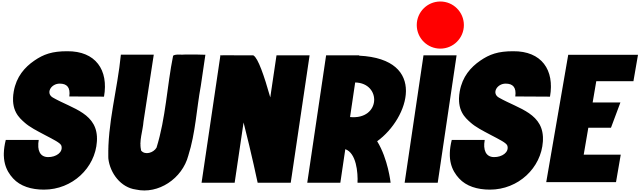 Originally uploaded as "Sunrisecompany logo.gif" on 3 Apr 2006 by Robguru with comment "Sunrise owns the copyright to this logo". The previous version was uploaded by Remember the dot on 22 December, 2006, and was the exact same quality as the original but with a smaller file size. A newer version was the same format as the previous version (PNG) and was done using Microsoft PowerPoint. This version is in a vector format (SVG)